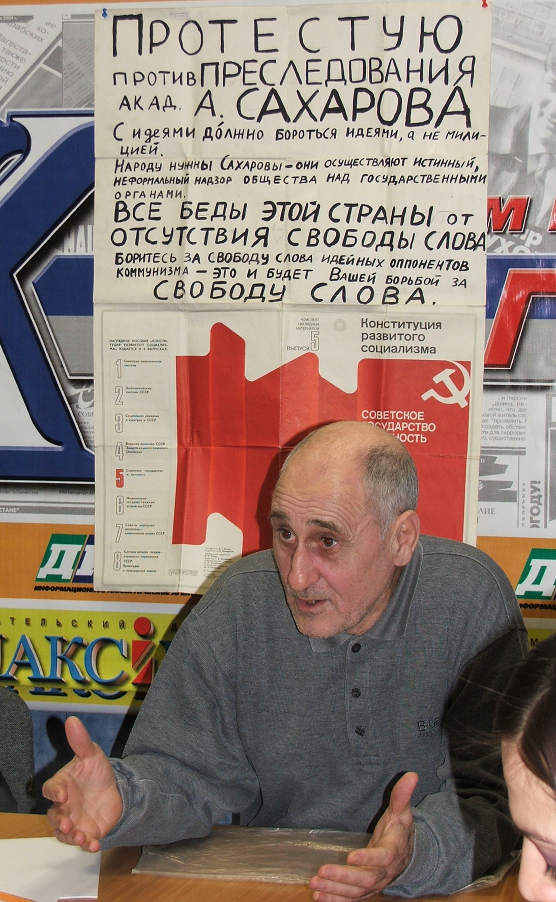 Meylanov Vazif with the sign he was usint on single demostration on 1980.